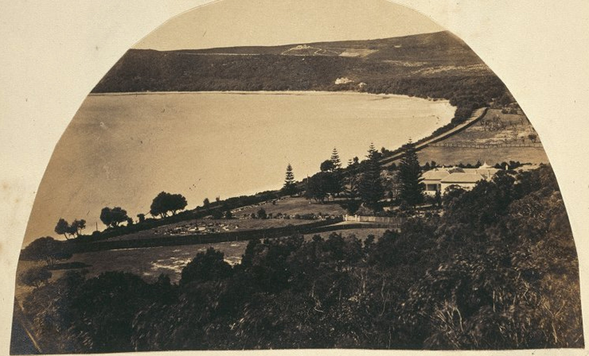 Rose Bay, Sydney circa 1855